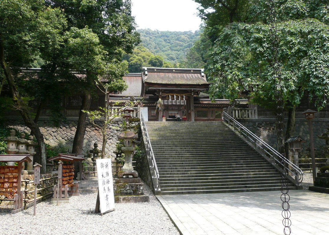 I took this picture of Inaba Shrine (Gifu City) in July 2007.